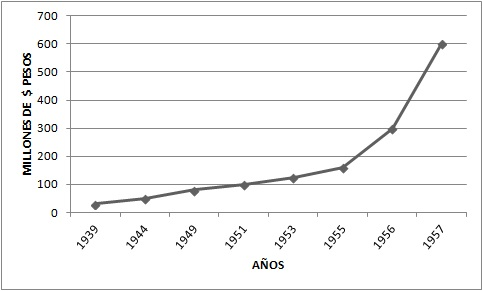 Capital of Bank Osorno and La Unión between 1939-1957